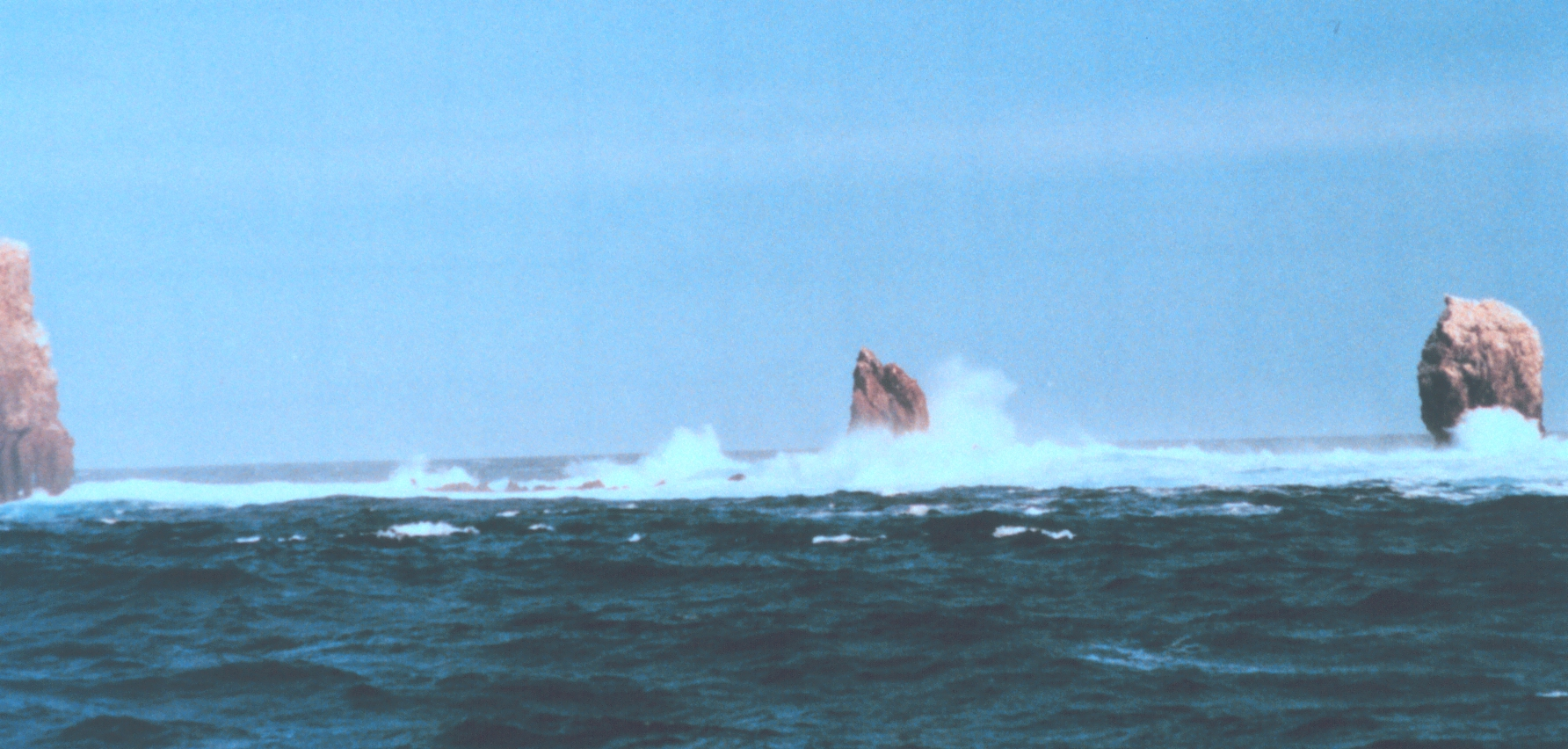 Alijos Rocks off the Mexican coast, view from the East